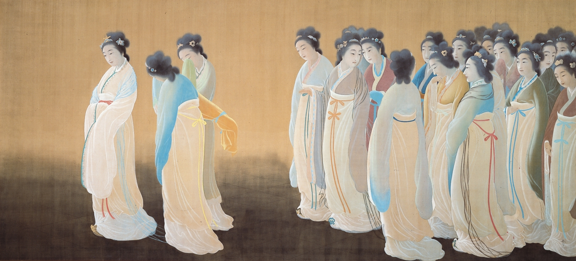 O Shokun by Hishida Shunso, Zenpoji, Tsuruoka, Yamagata, Japan